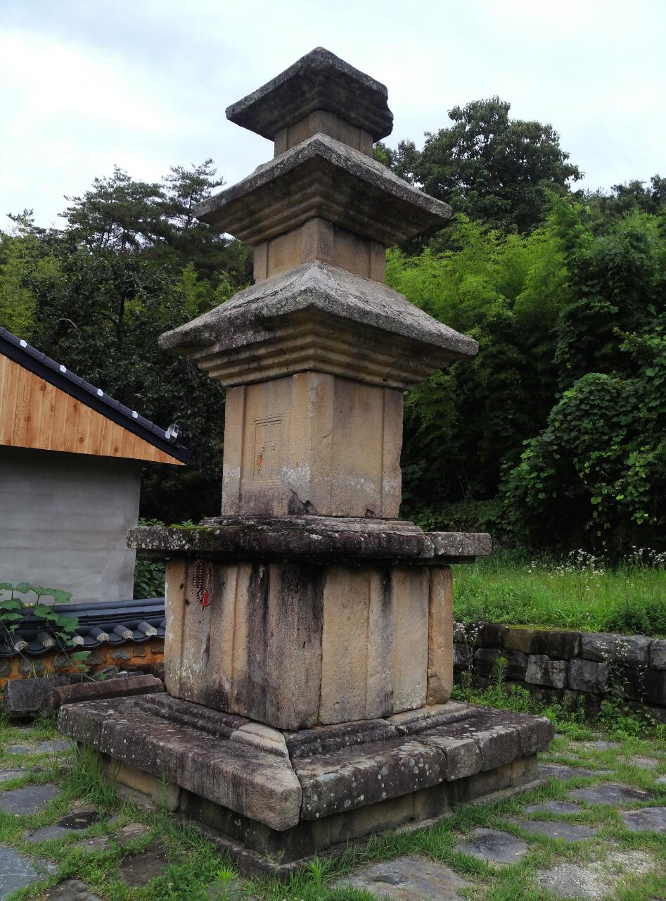 Myeoum Temple 3 story Tower (Myeoumsaji), built in Goryo Dynasty